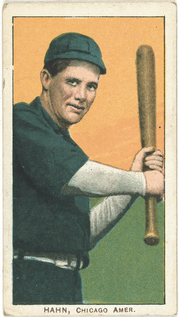 Title: Ed Hahn, Chicago White Sox, baseball card portrait Abstract/medium: 1 print : relief with halftone, color.